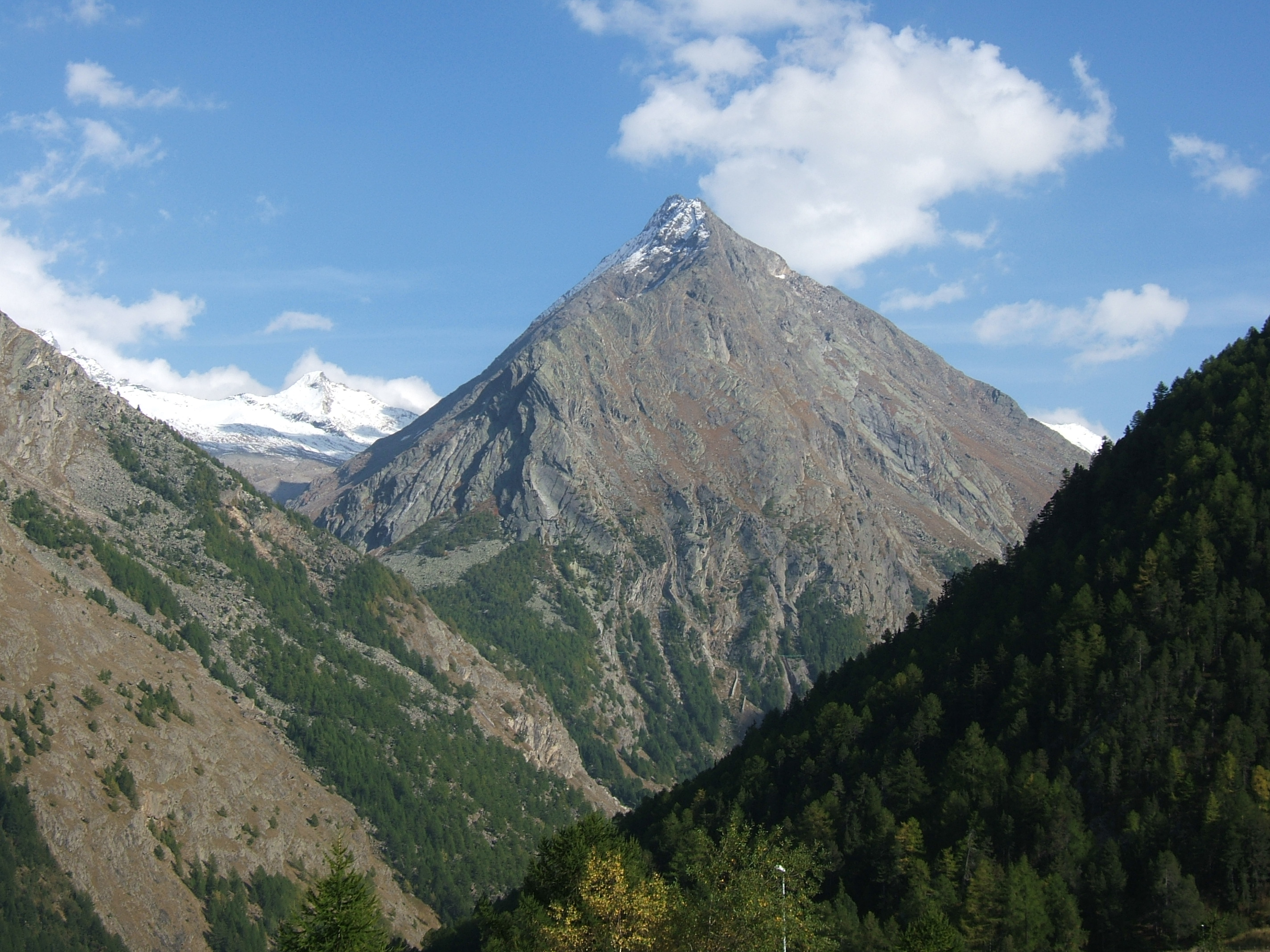 Almagellerhorn from Northwest, from Saas Fee